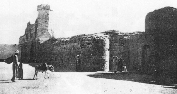 Southern facade of the Yunis Caravansary (khan) — in the settlement of Khan Yunis. Constructed by the emir Yunus al-Nûrûzi in 1387-1388, during the Burji Dynasty of the Islamic Mamluk Sultanate of Egypt (1250 CE to 1517). 1930s image, when in the southwestern British Mandate of Palestine. In the present day Khan Yunis is located in the southern Gaza Strip.